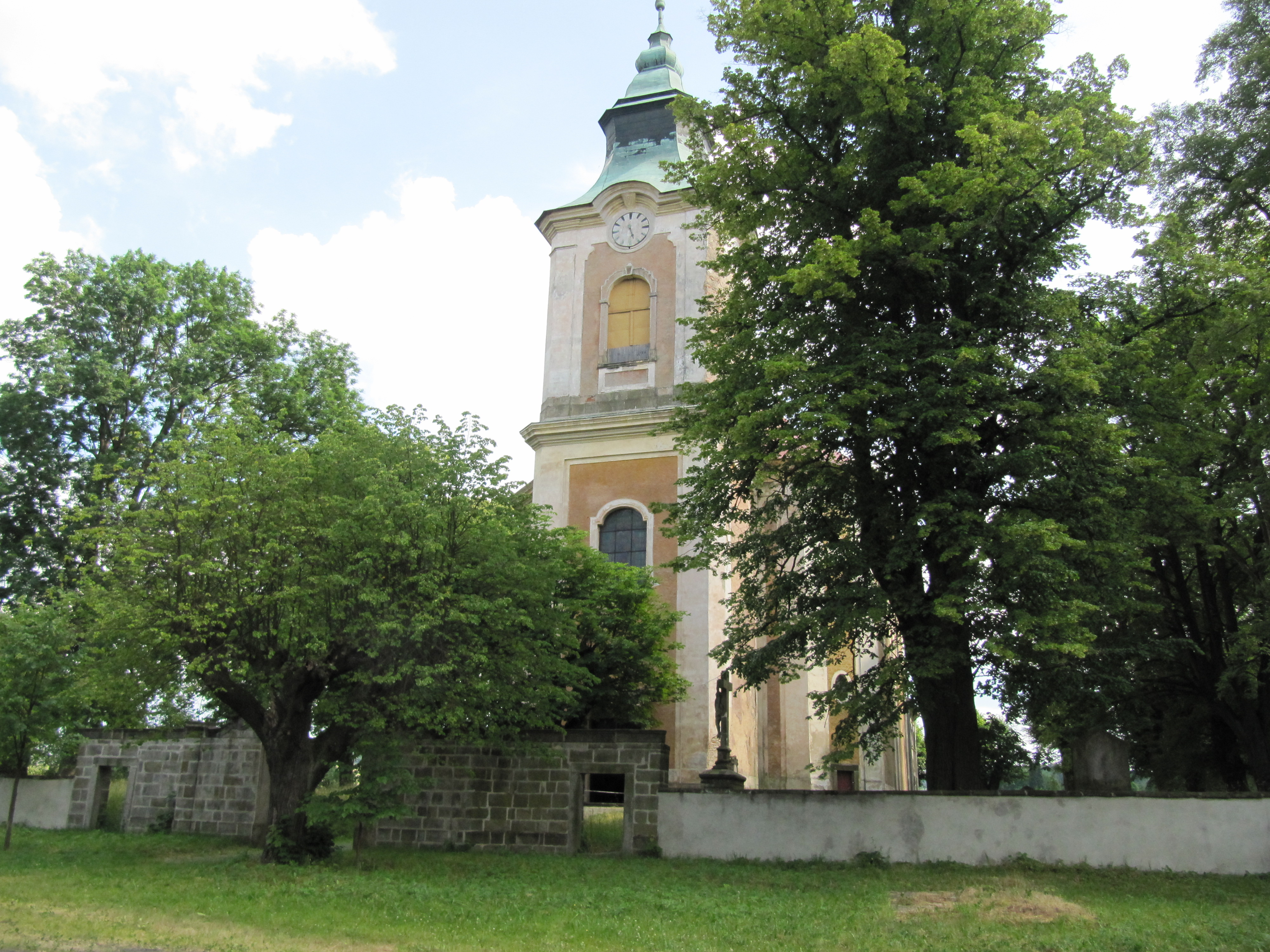 Staré Křečany in Děčín District, Czech Republic. Entrance to the church of Saint John of Nepomuk.